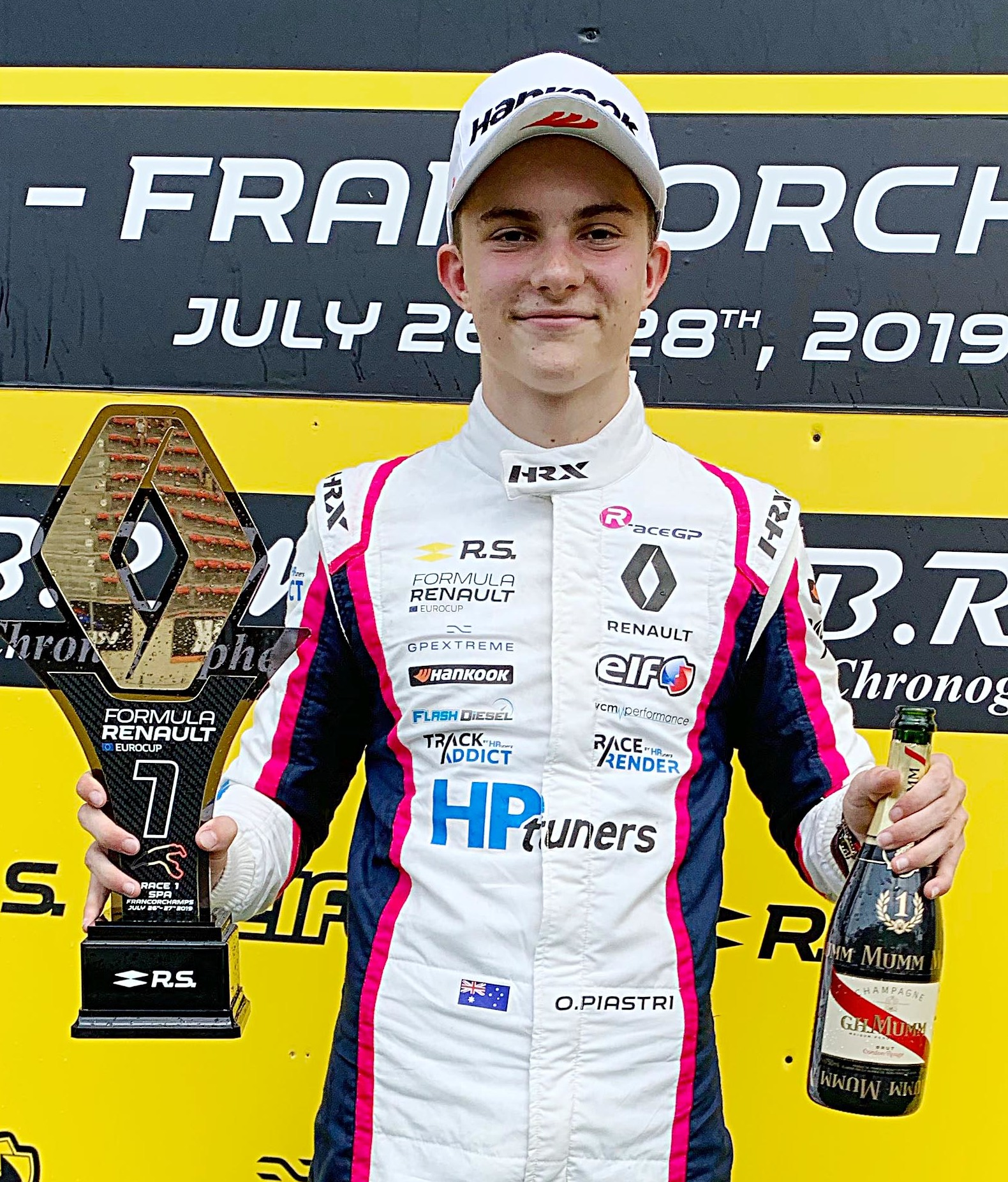 Oscar Piastri on the podium at Spa-Francorchamps after winning a race in Formula Renault Eurocup